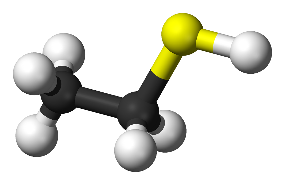 Space-filling model of ethane-1,2-dithiol